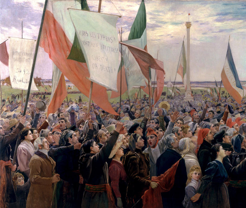 "Assemblée des six-comtés", a painting depicting the Assembly of the Six Counties, held in Saint-Charles, Lower Canada on October 23 and October 24, 1837.